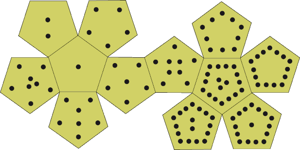 nontransitive dodecahedron D VII